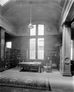 Interior View, Osler Library. McGill University, Montreal